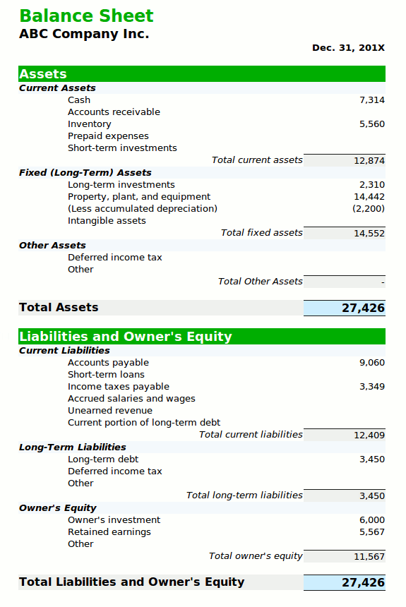 This is a balance sheet example, the image was taken from Google Images